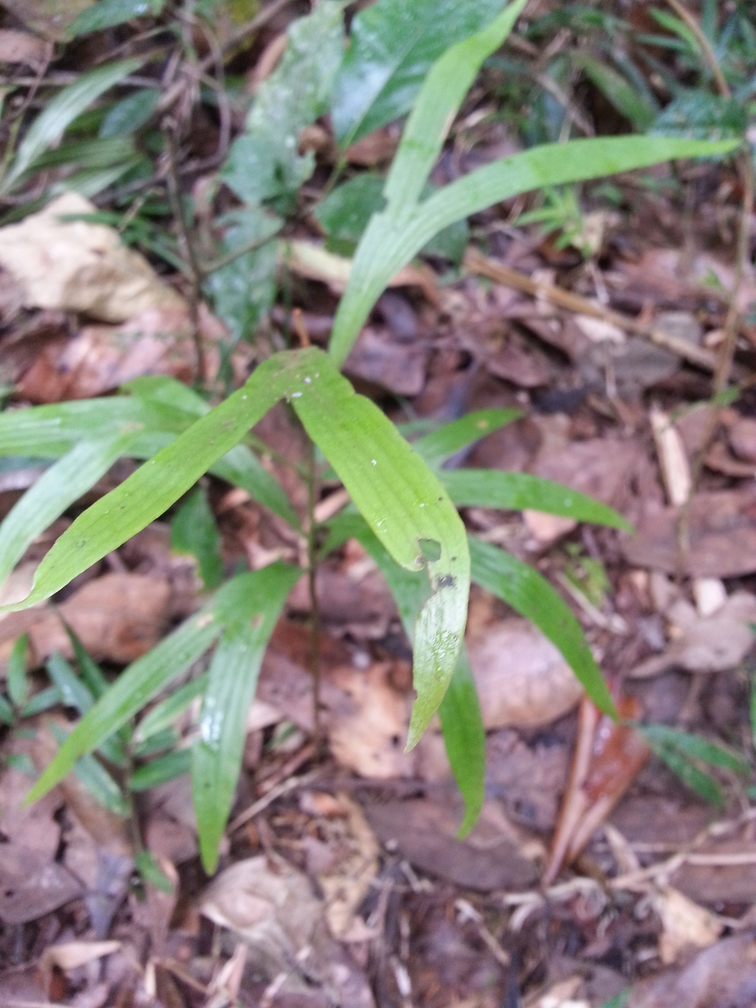 Dilobeia thouarsii, 20cm tall, understorey. Mantadia, Madagaskar.